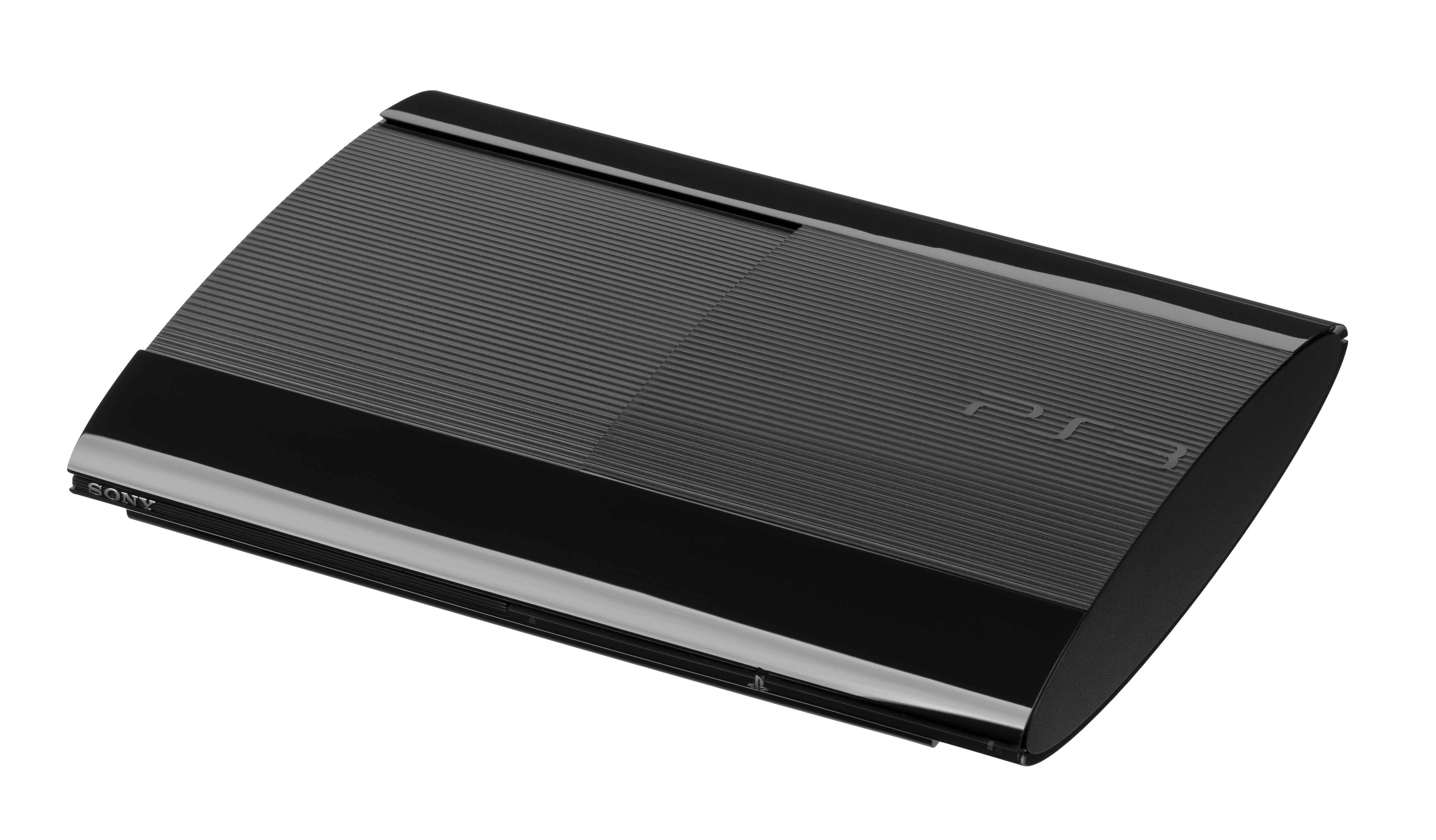 The PlayStation 3 (PS3) gaming console made by Sony. Nicknamed the "Super Slim", it is the third and final hardware design of the PlayStation 3 console. It is smaller and lighter than the previous systems, but the most notable change is the move from a slot-loading Blu-Ray drive to a sliding-door version. Released in late 2012, it was available with either 250GB or 500GB hard drive, or with 12GB of flash memory.